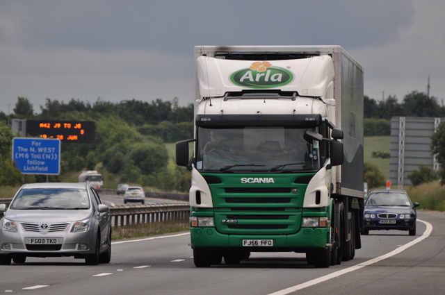 M42 Motorway - Arla Scania articulated vehicle.